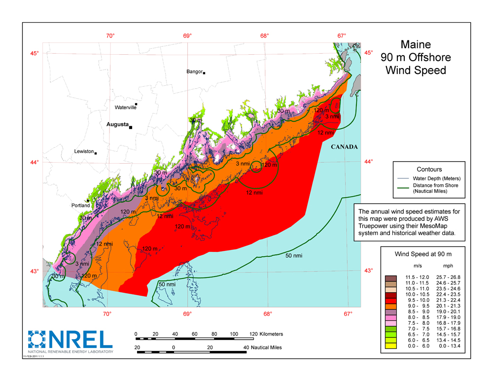 Average annual wind speed along the coast of Maine.